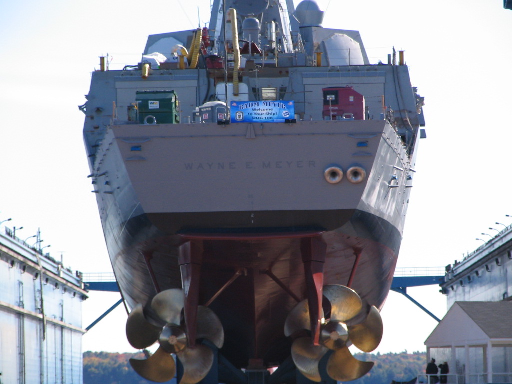 Stern View of the DDG 108 at Christening 18 Oct 2008